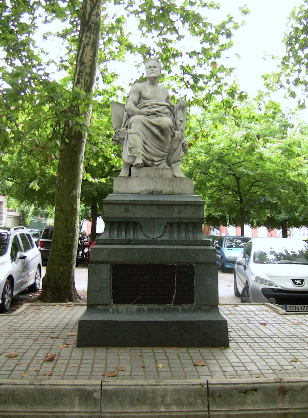 Statue of Victor Hugo, located in Besançon (Doubs, France)